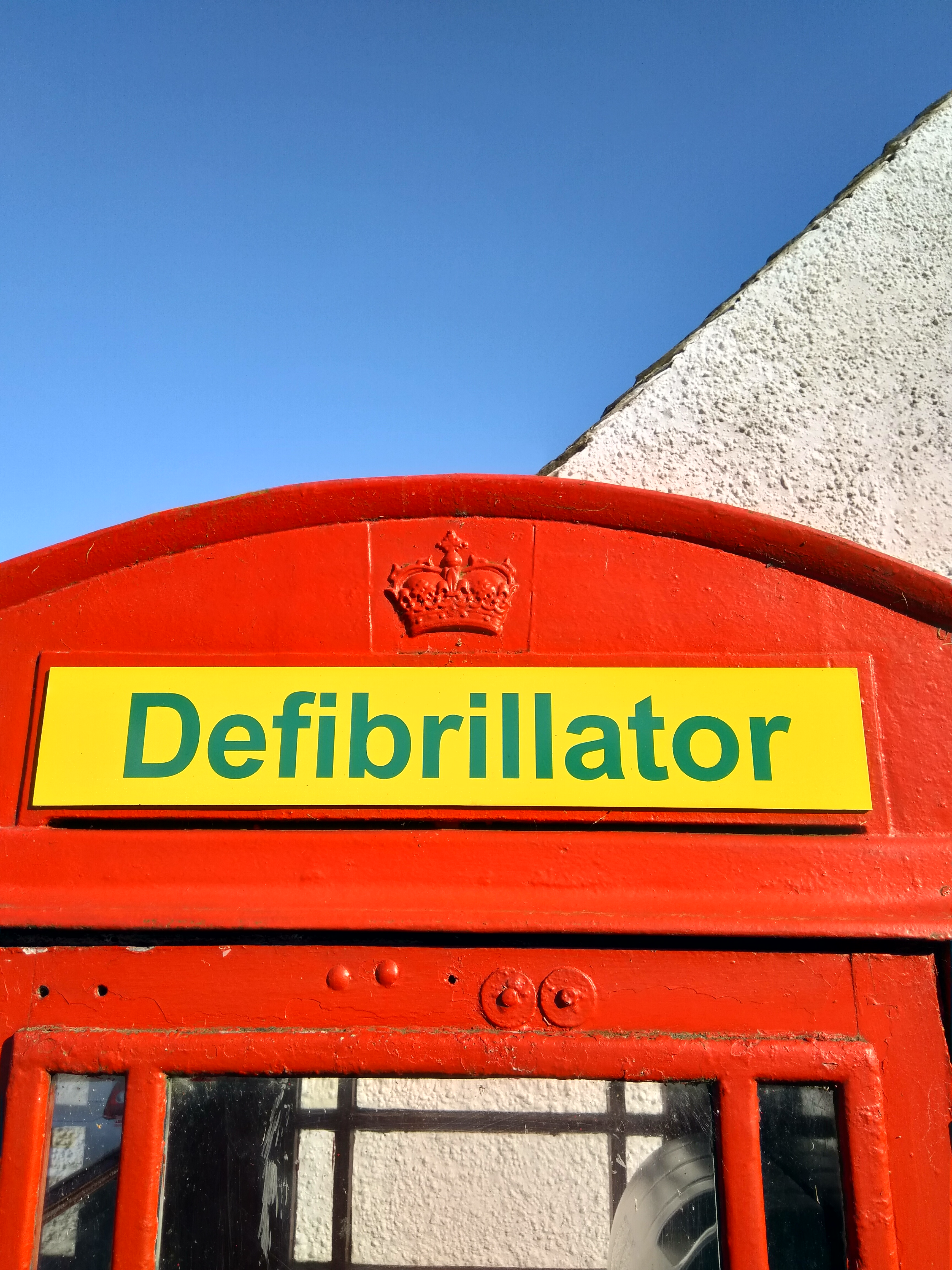 A K6 (Crown of Scotland) model Red Telephone Box converted to house a Defibrillator